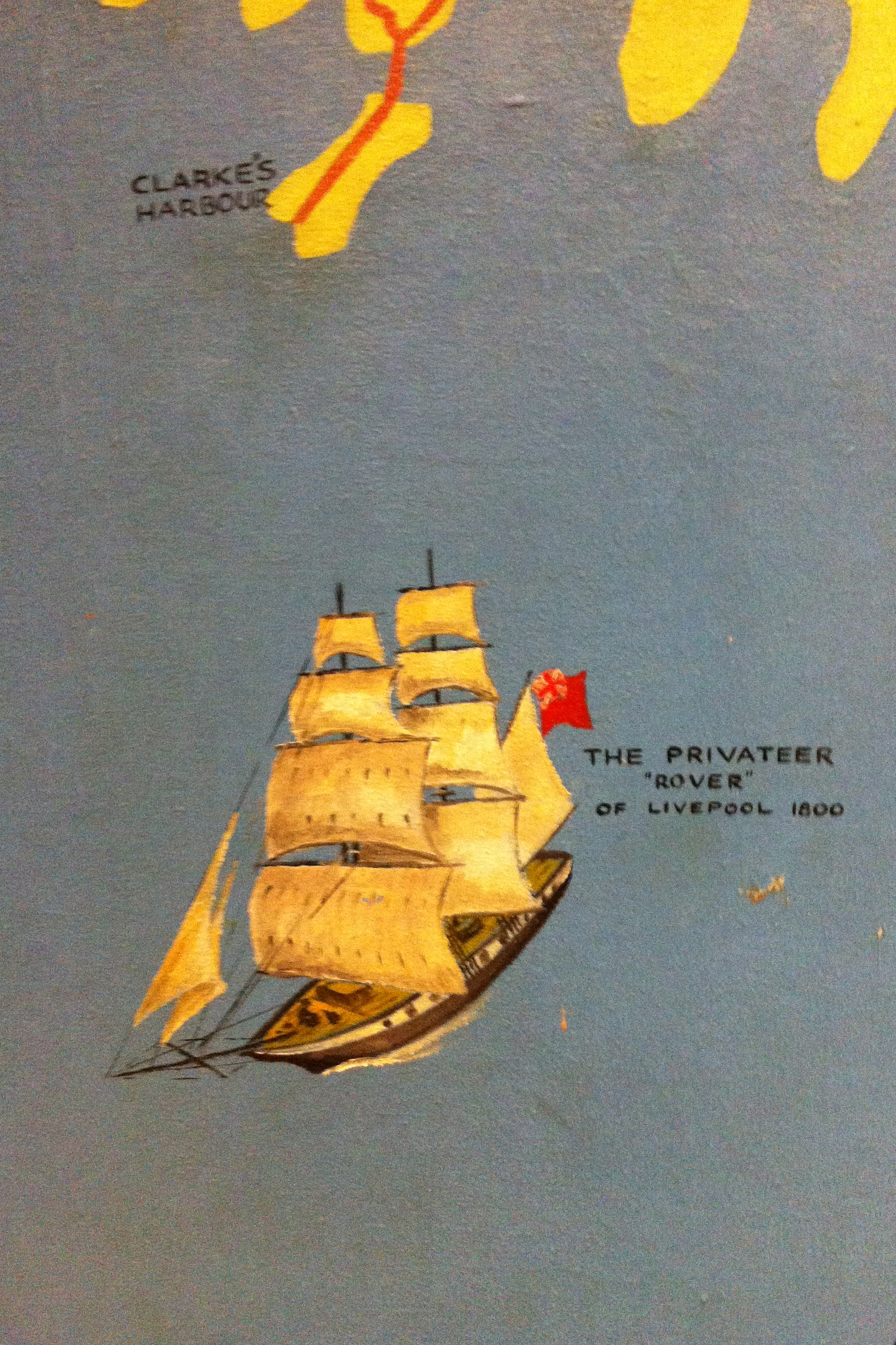 Rover Westin Hotel Halifax Nova Scotia - inset of mural of a map of nova scotia